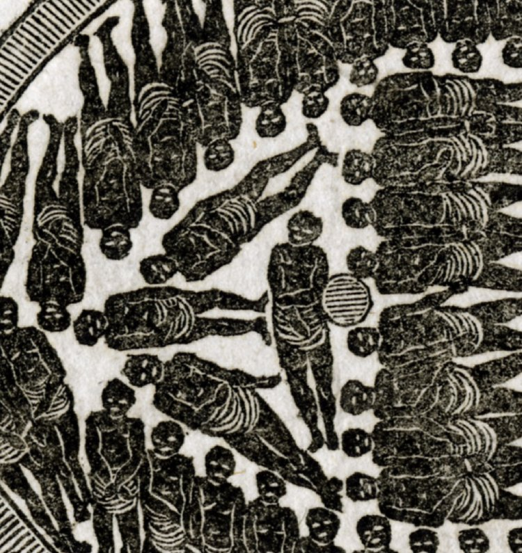 "Description of a slave ship," by an anonymous artist, wood engraving, 328 mm x 444 mm. "This is one of several prints produced from the same woodblocks showing plans and sections of the slave ship "Brookes" of Liverpool. A model of the ship was used by William Wilberforce in the House of Commons to demonstrate conditions on the Middle Passage. The woodcut was first produced in 1786 to illustrate various works by Thomas Clarkson, and was then distributed separately by abolitionists." Courtesy of the British Museum, London.